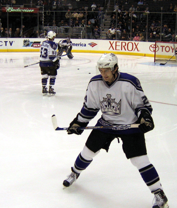 Alexander Frolov, Photograph by Matthew McPherson, 02-Jan-2006, Staples Center, Los Angeles, CA.